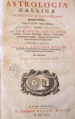 Astrologia Gallica (1661) by French mathematician and astrologer Jean-Baptiste Morin (1583-1656)